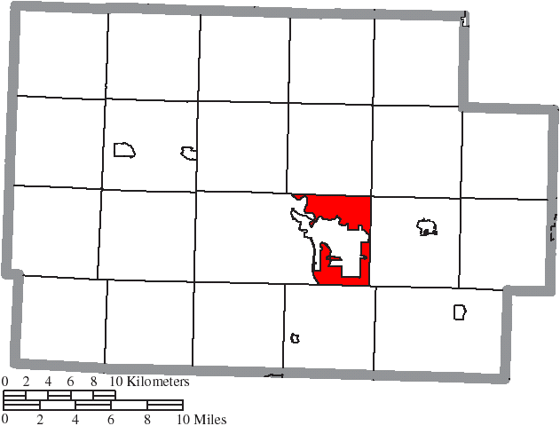 Map of the municipal and township boundaries of Coshocton County, Ohio, United States, as of the 2000 census, with the location of Tuscarawas Township highlighted. Township borders are shown only in unincorporated areas in order to differentiate incorporated and unincorporated areas more clearly.